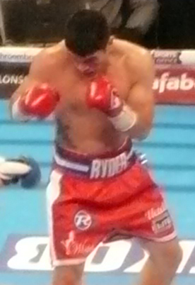 John Ryder at The O2 Arena, fighting Nick Blackwell for the British middleweight title.